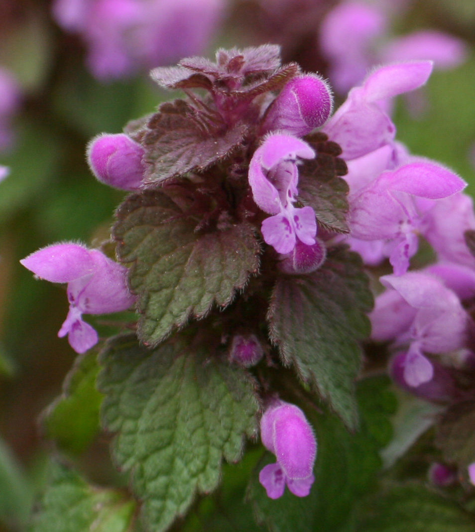 Lamium purpureum growing in a large colony along the Colonial Parkway near Jamestown, Virginia